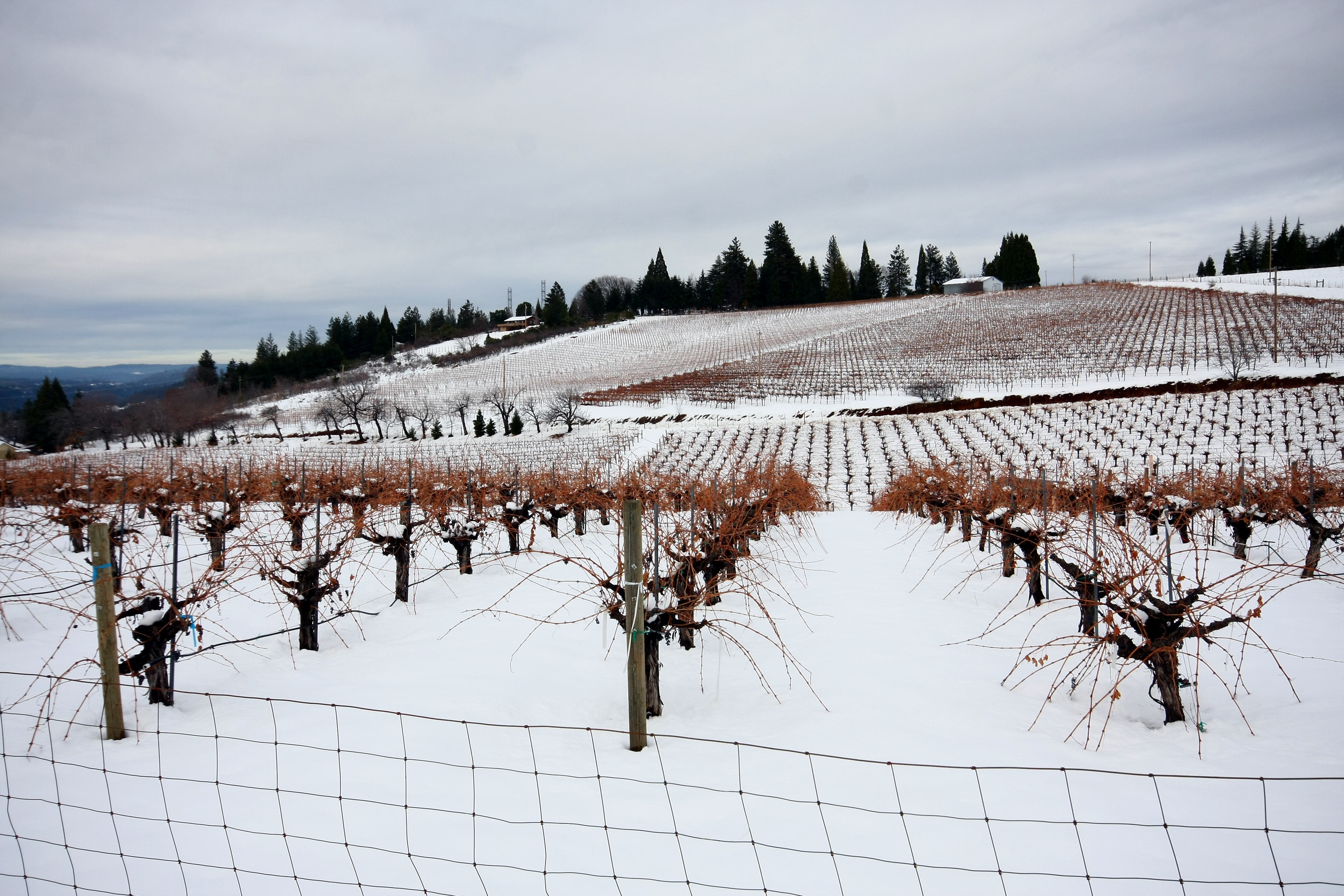 A California vineyard covered in snow.